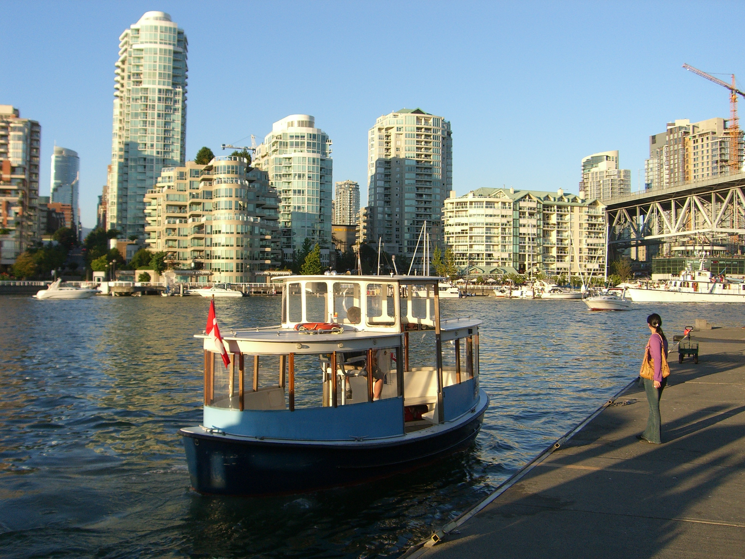 A picture of a False Creek Ferry